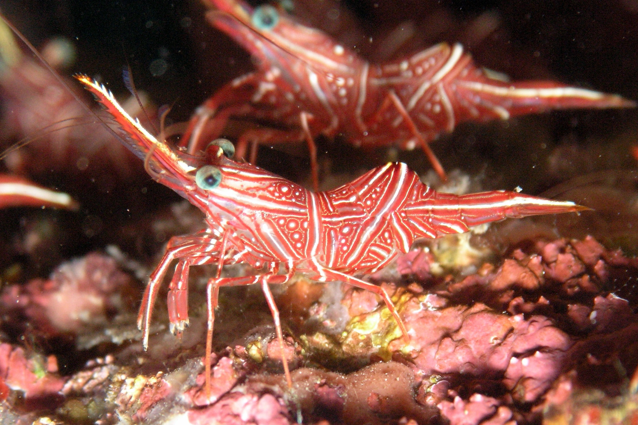 Image of hingebeak shrimp, Rhynchocinetes durbanensis. Taken at Tasik Ria, North Sulawesi, Indonesia.